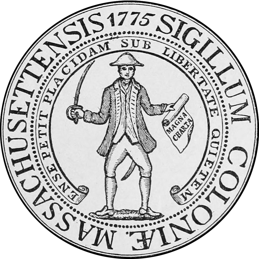 Massachusetts Seal of 1775 with the motto of Algernon Sidney